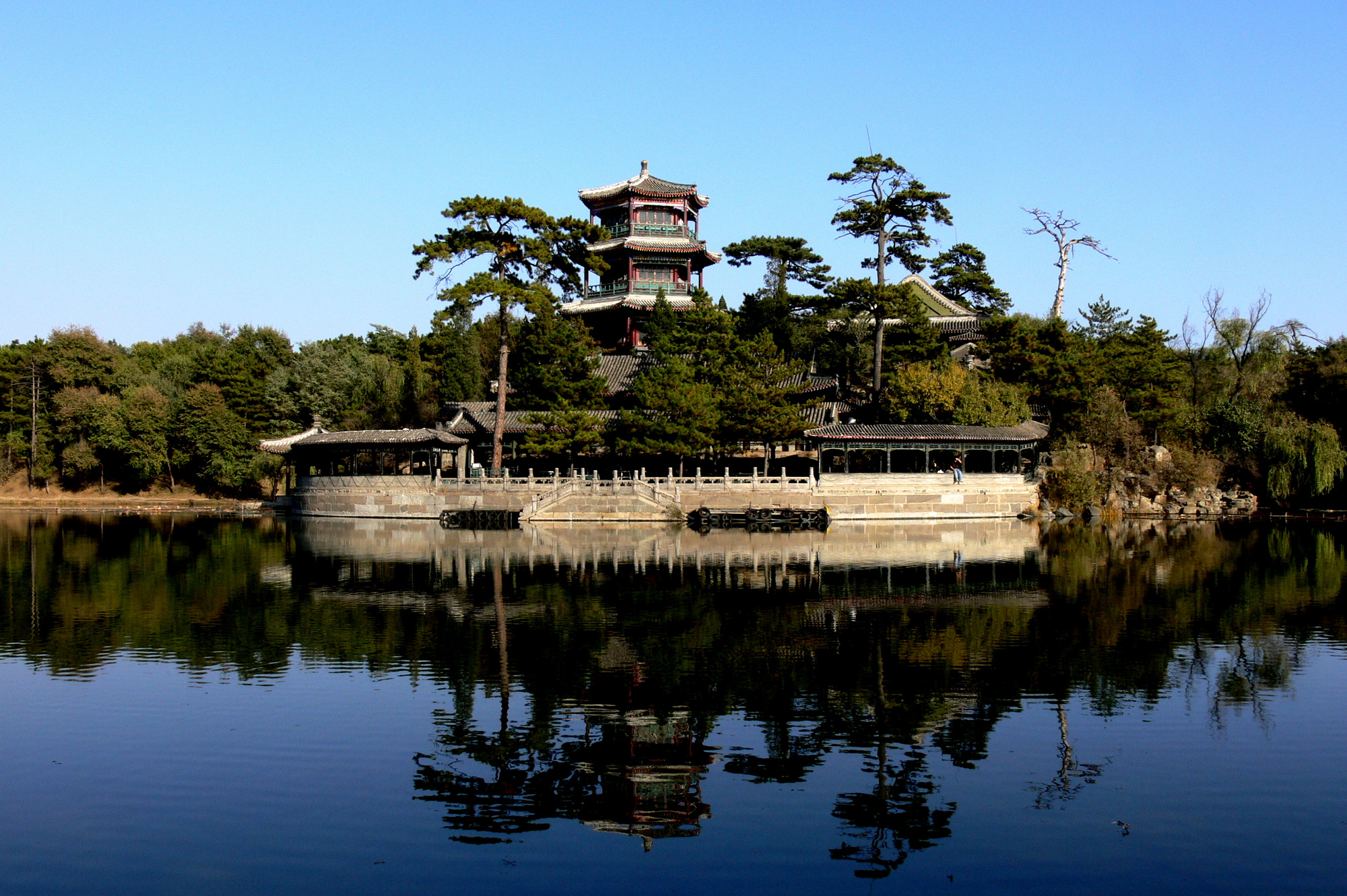 Little Gold Mountain in the Mountain Resort